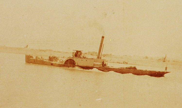 Paddle steamer 'Bordein' built in 1869 in London for Sir Samuel Baker; served in the Mahdist navy and used on the Nile until 1905.